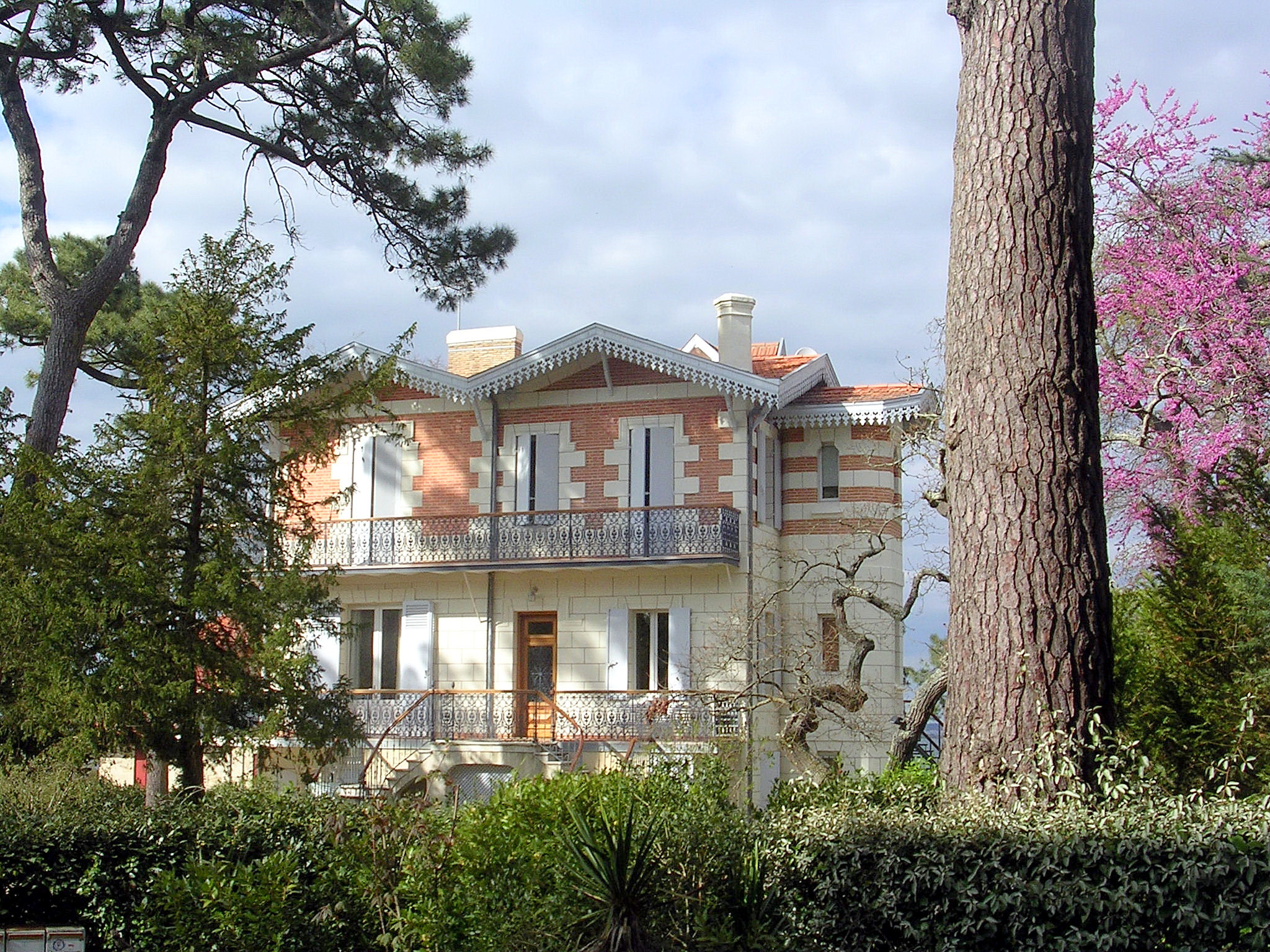 Mansion in Arcachon winter city.